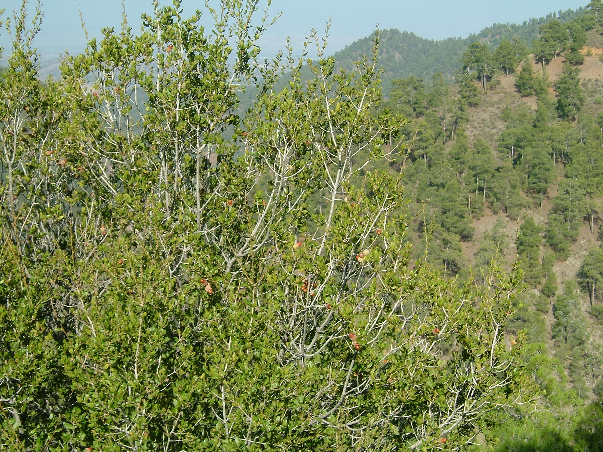 Quercus coccifera in Proodos Cyprus